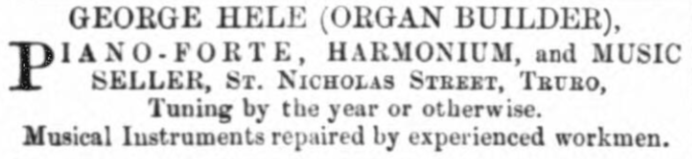 Advertisement for George Hele, Organ Builder from the Royal Cornwall Gazette 15 November 1866